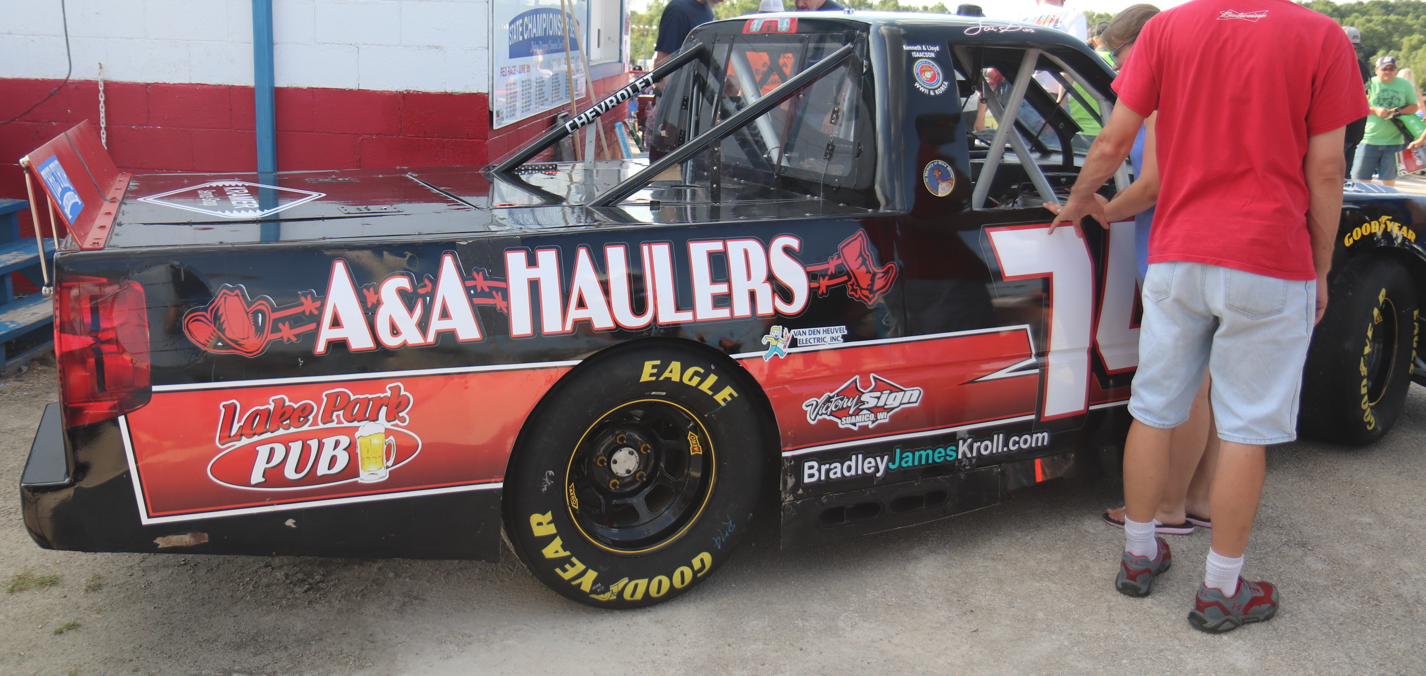 The side of Lou Goss' NASCAR Gander Outdoor Truck on display at Wisconsin International Raceway.